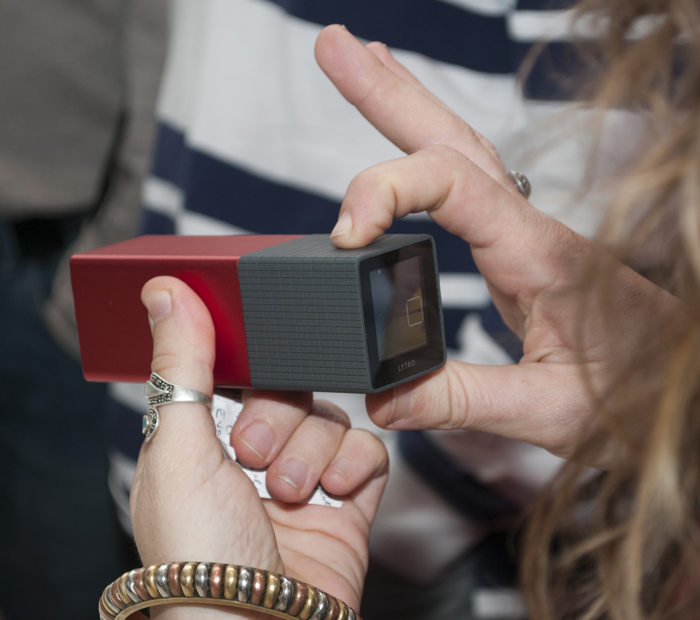 Taken after a presentation by CEO Ren Ng at HP Auditorium, Soda Hall, University of California, Berkeley, showing one of the attendees (probably a student) trying out the Lytro camera (showing the LCD on the back of the device, and pressing the shutter button on top to take a picture). The unit was fully functional; at this time the cameras were on preorder but not quite yet shipping.